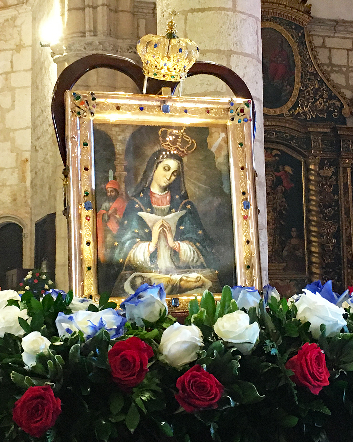 Mass in honor to Nuestra Señora de la Altagracia (Our Lady of the Altagracia) at Catedral Primada, Ciudad Colonial Santo Domingo, Dominican Republic.